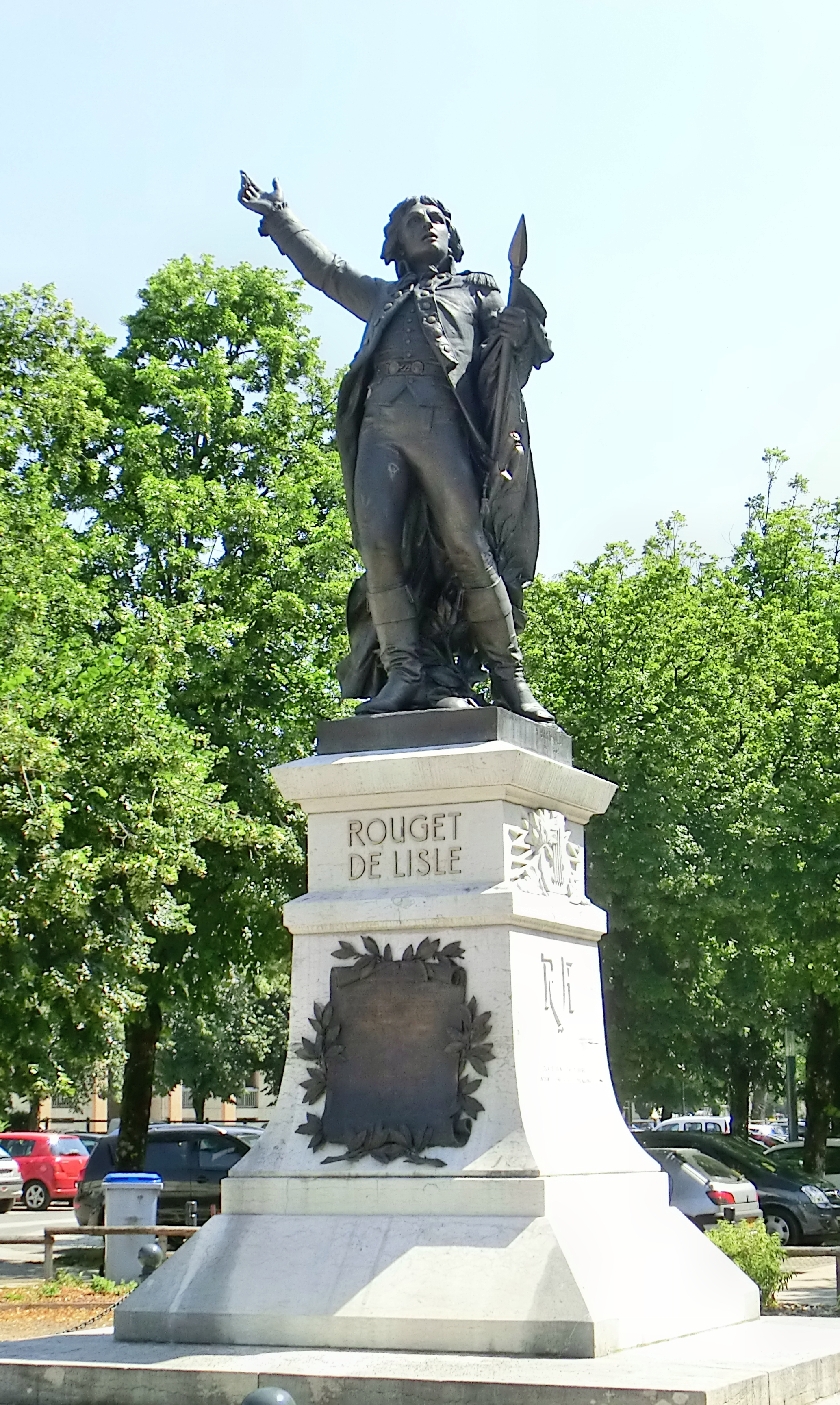 Statue of Rouget de Lisle in Lons-le-Saunier, France